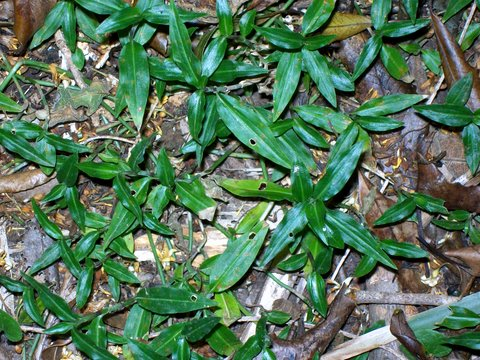 Aneilema biflorum at Eastwood, NSW